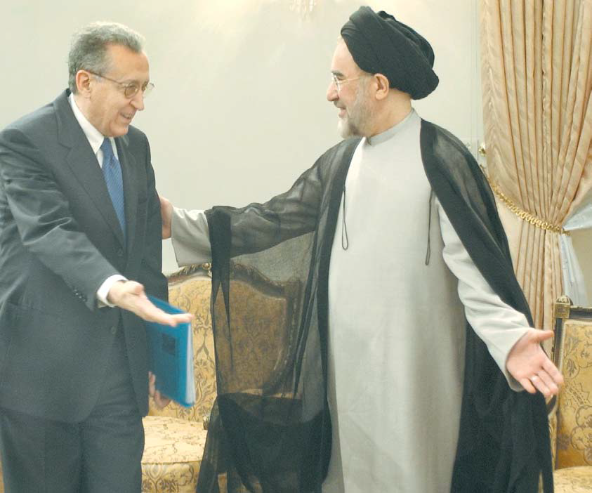 Mohammad Khatami and Lakhdar Brahimi - August 4, 2003